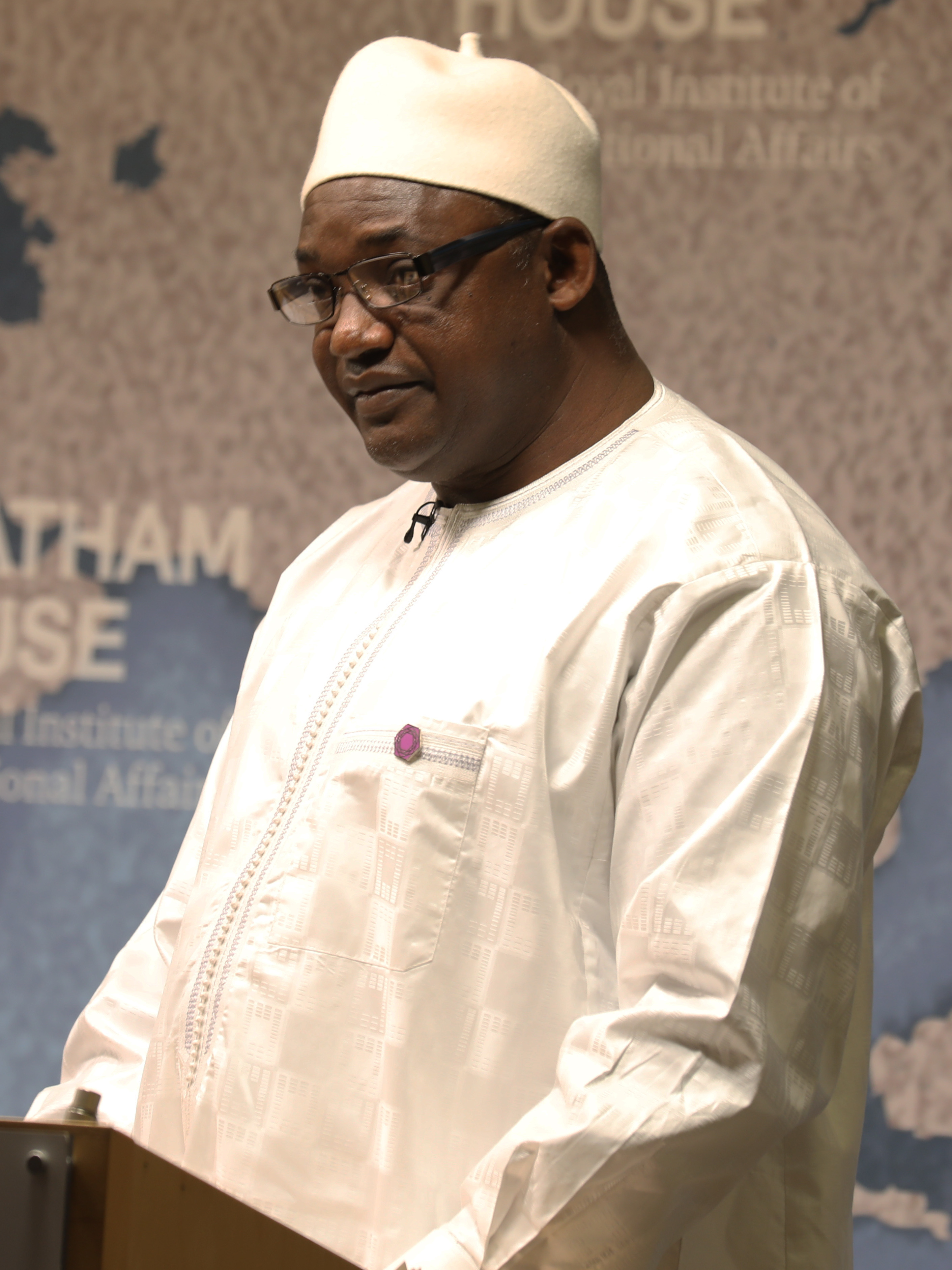 HE Adama Barrow, President, Republic of the Gambia. Shaping The Gambia's Future: How to Build a Path to Sustainable Progress.